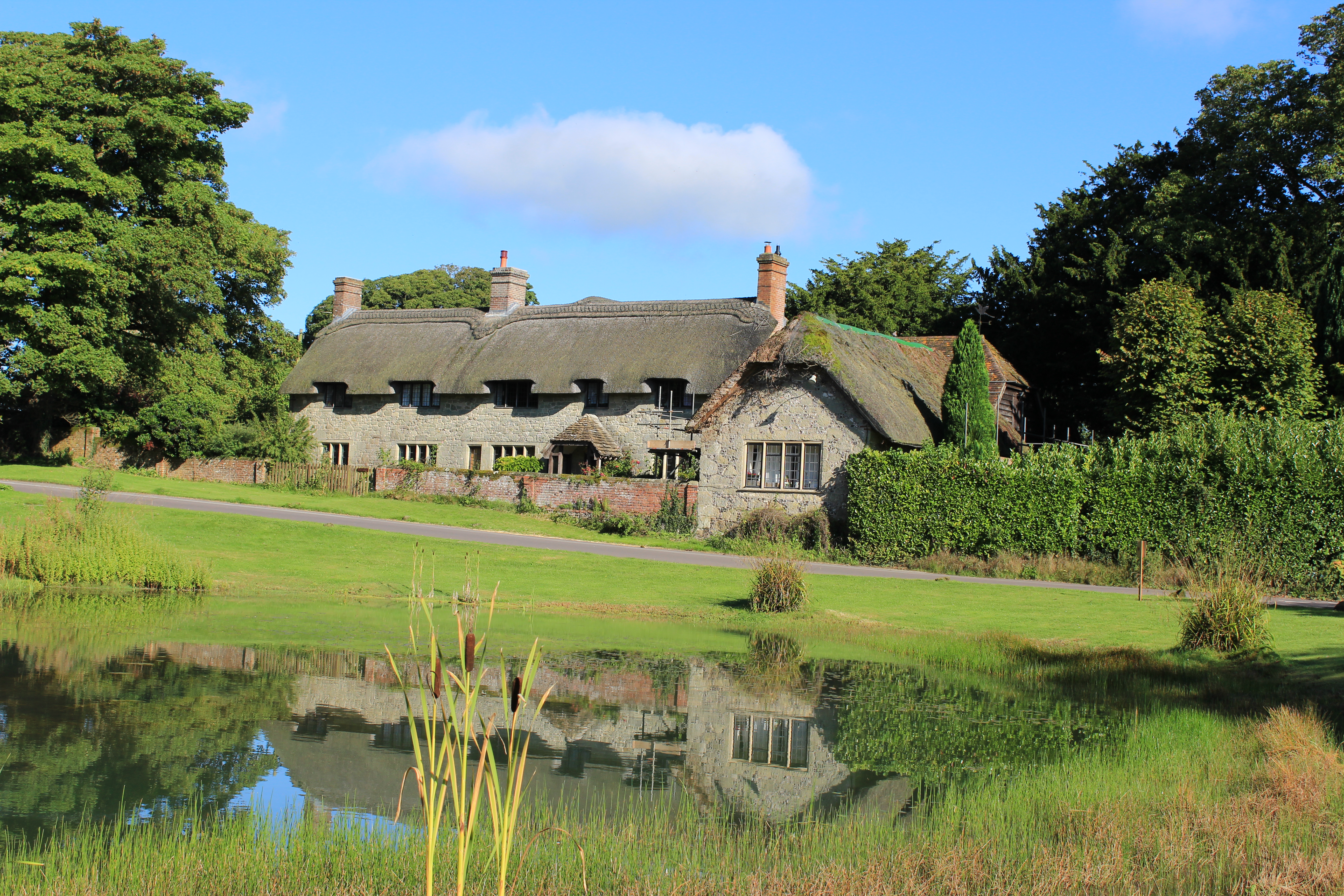 The pond at Ashmore in Dorset on 1 September 2015. A village resident told me that the water level was lower than usual.